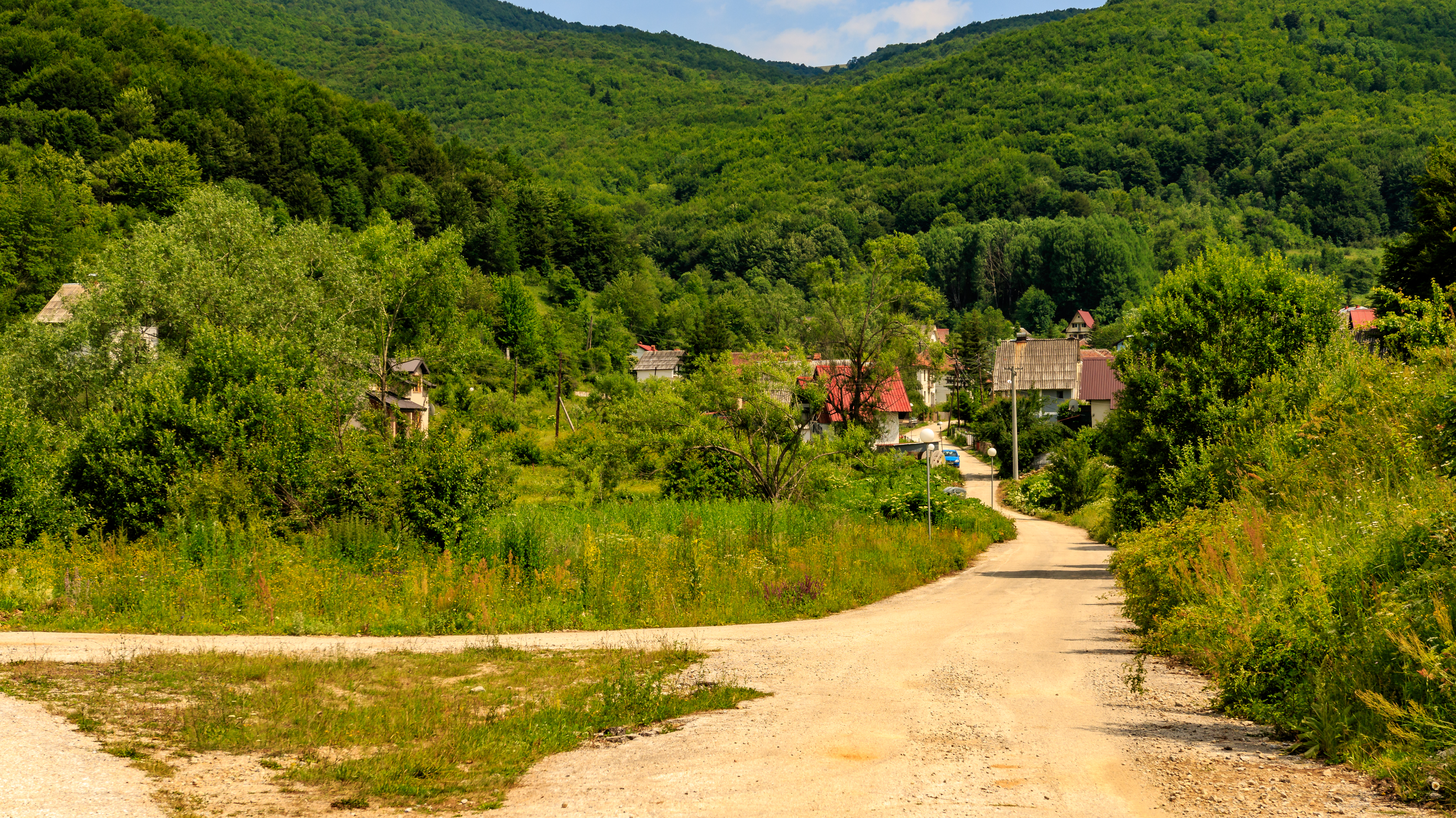 View of the village Nikiforovo